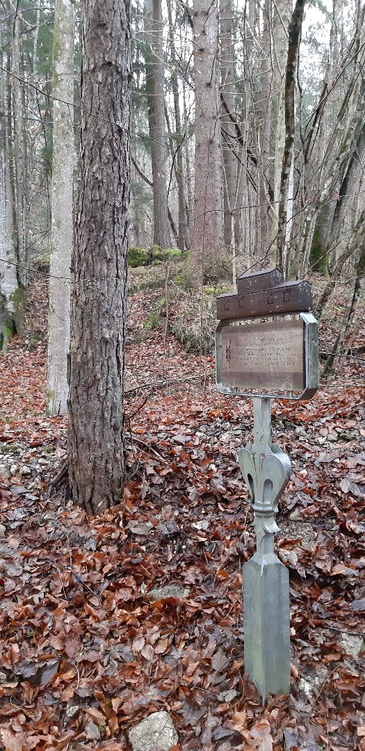 PlCommemoration plaque and remains of the burnt down Scout house in Baumgarten, Bavaria